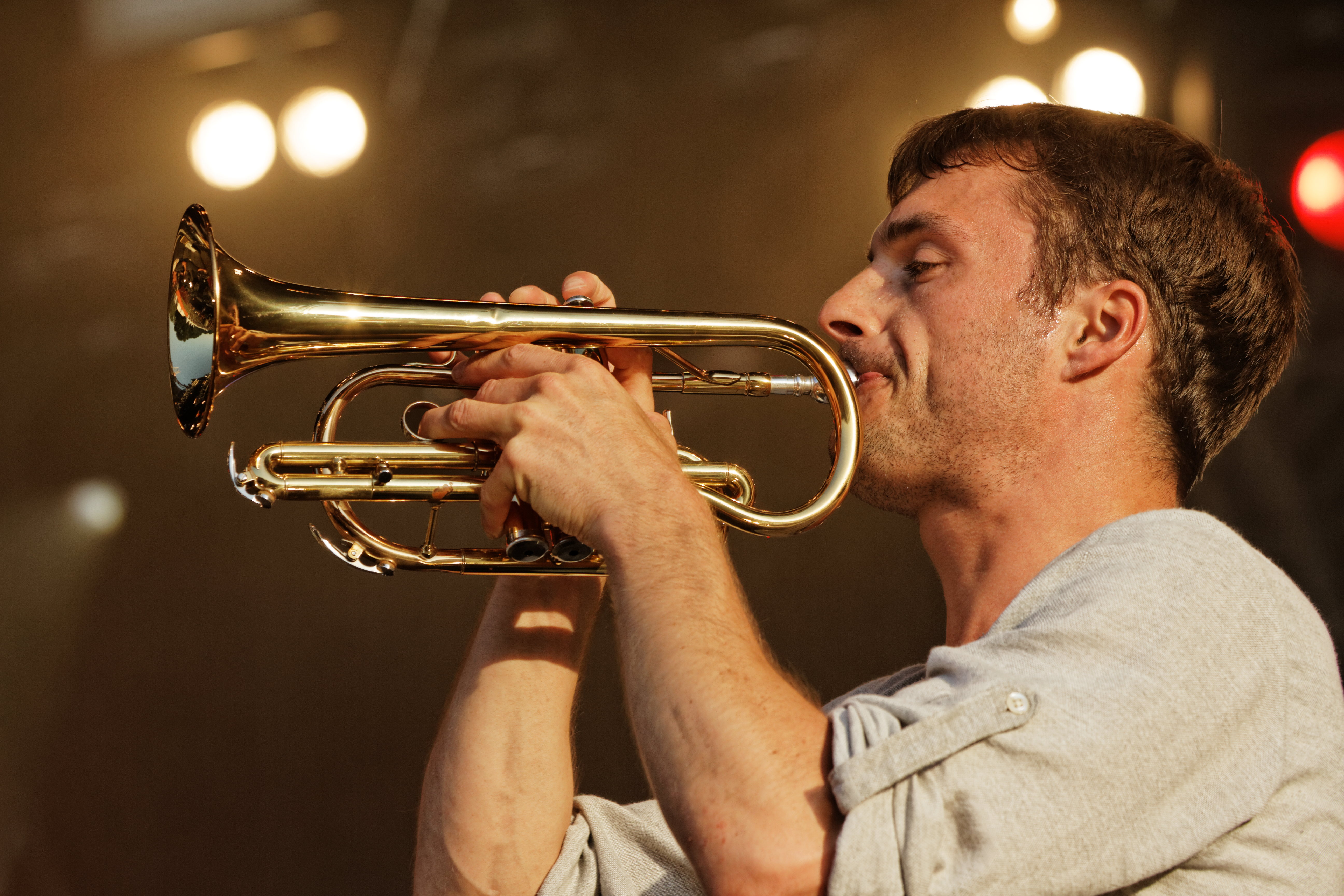 François and the Atlas Mountain Grall in concert on stage at the festival des Vieilles Charrues 2014..